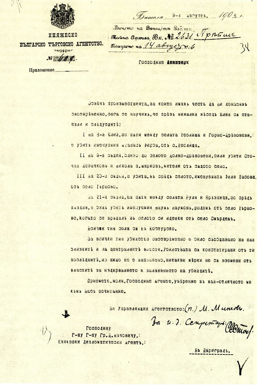 Report by the Bitola Bulgarian Consulate, 9 Augist 1906